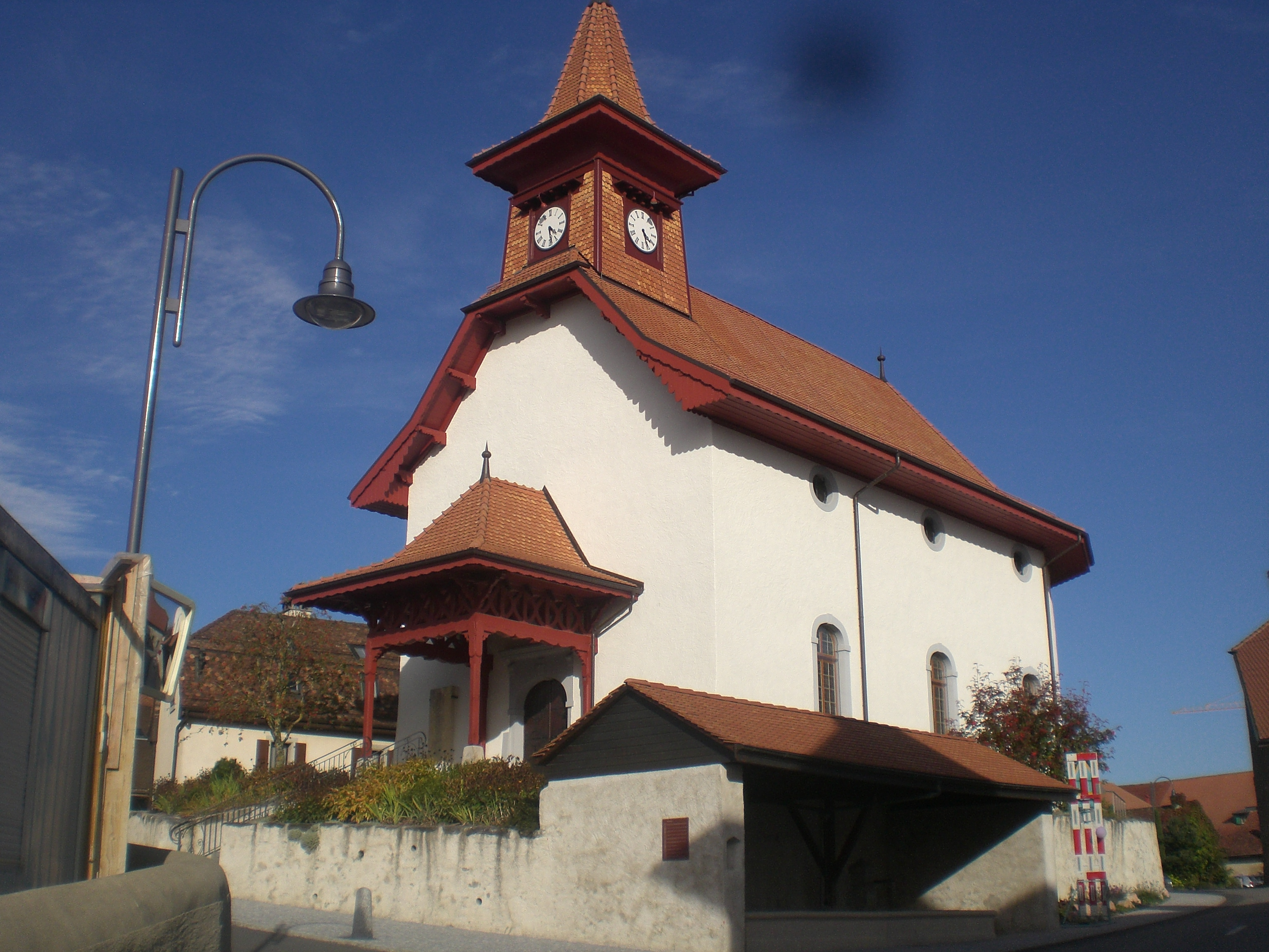 Church of Sullens, canton of Vaud, Switzerlans